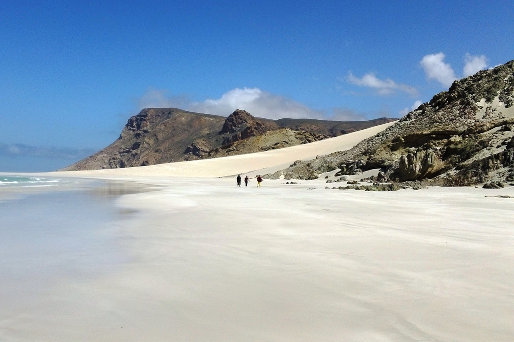 Detwah lagoon in Socotra Yemen